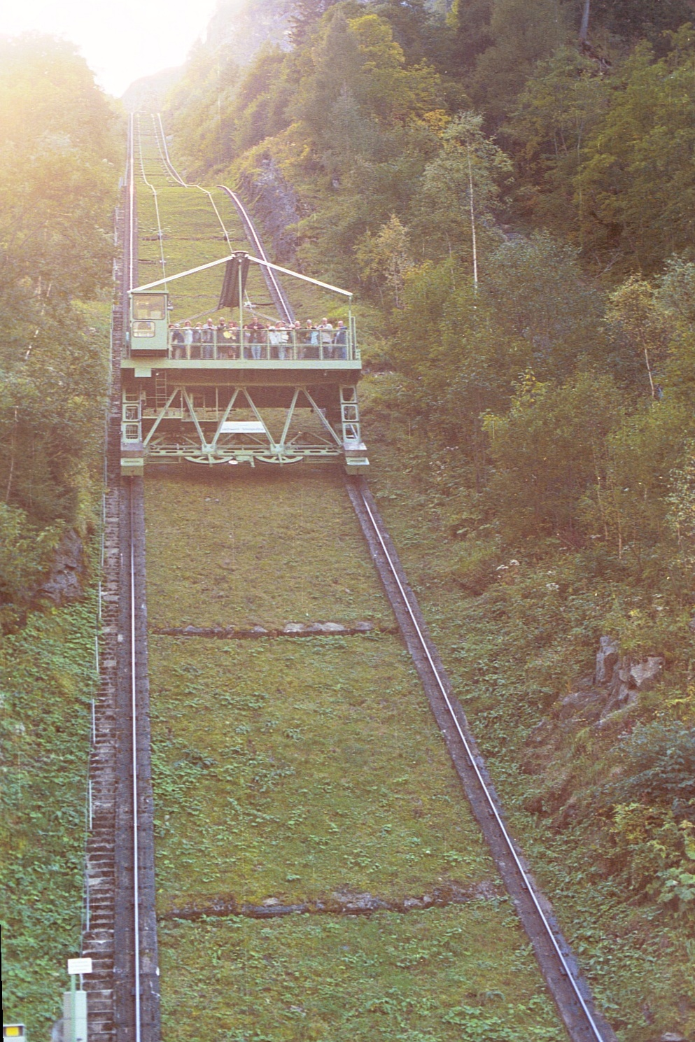 The Lärchwand-Schrägaufzug (inclined lift) above Kaprun, state of Salzburg, Austria. It provides the only access to the Mooserboden and Wasserfallboden reservoirs. Hence its size - it had to be big enough to carry construction lorries. Its 8.2 metre gauge is a record.